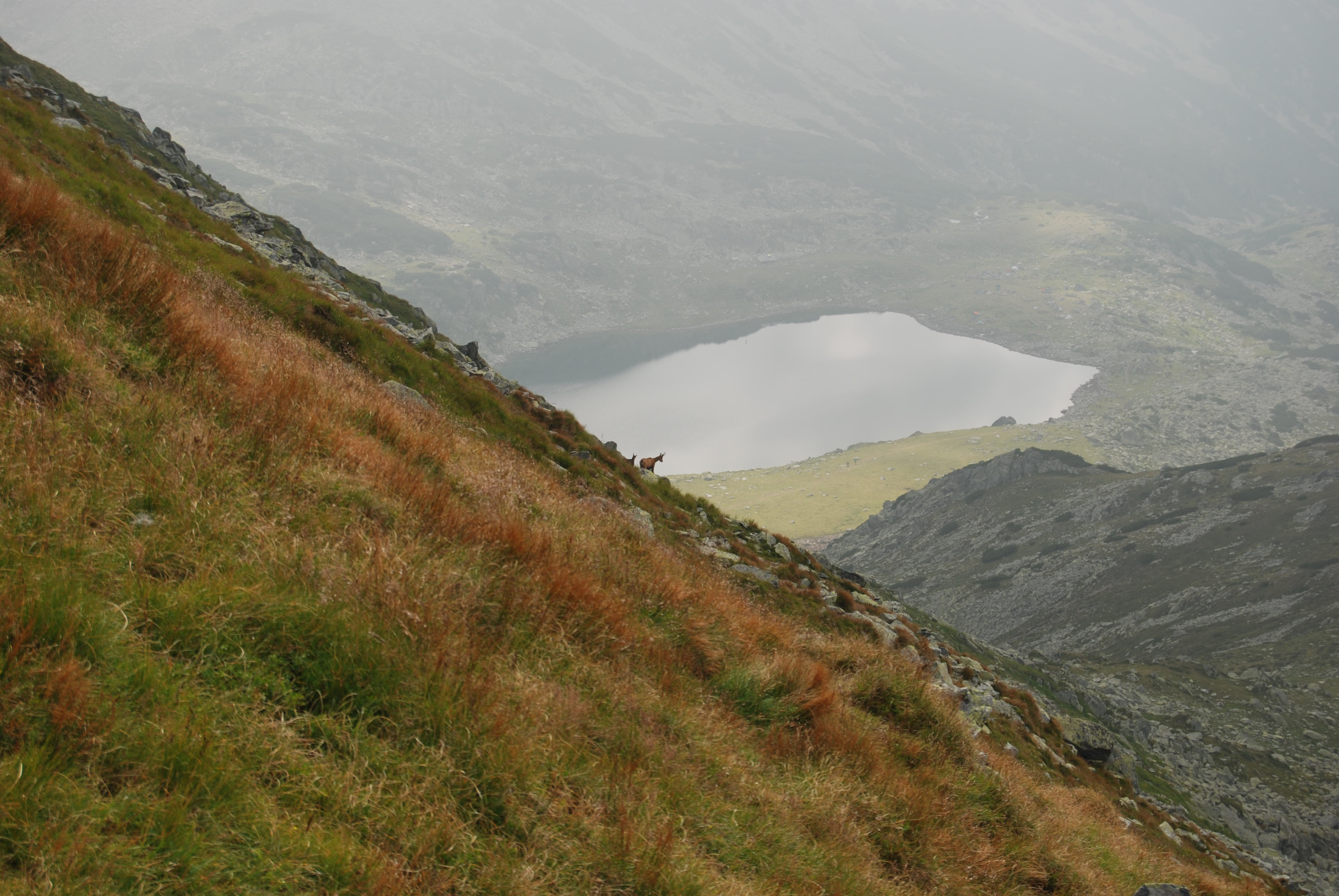 Bucura lake view while climbing up towards the Bucura peak. A small group of chamoises can be spoted on the lake background. The black goat is a common sight within the park premises.